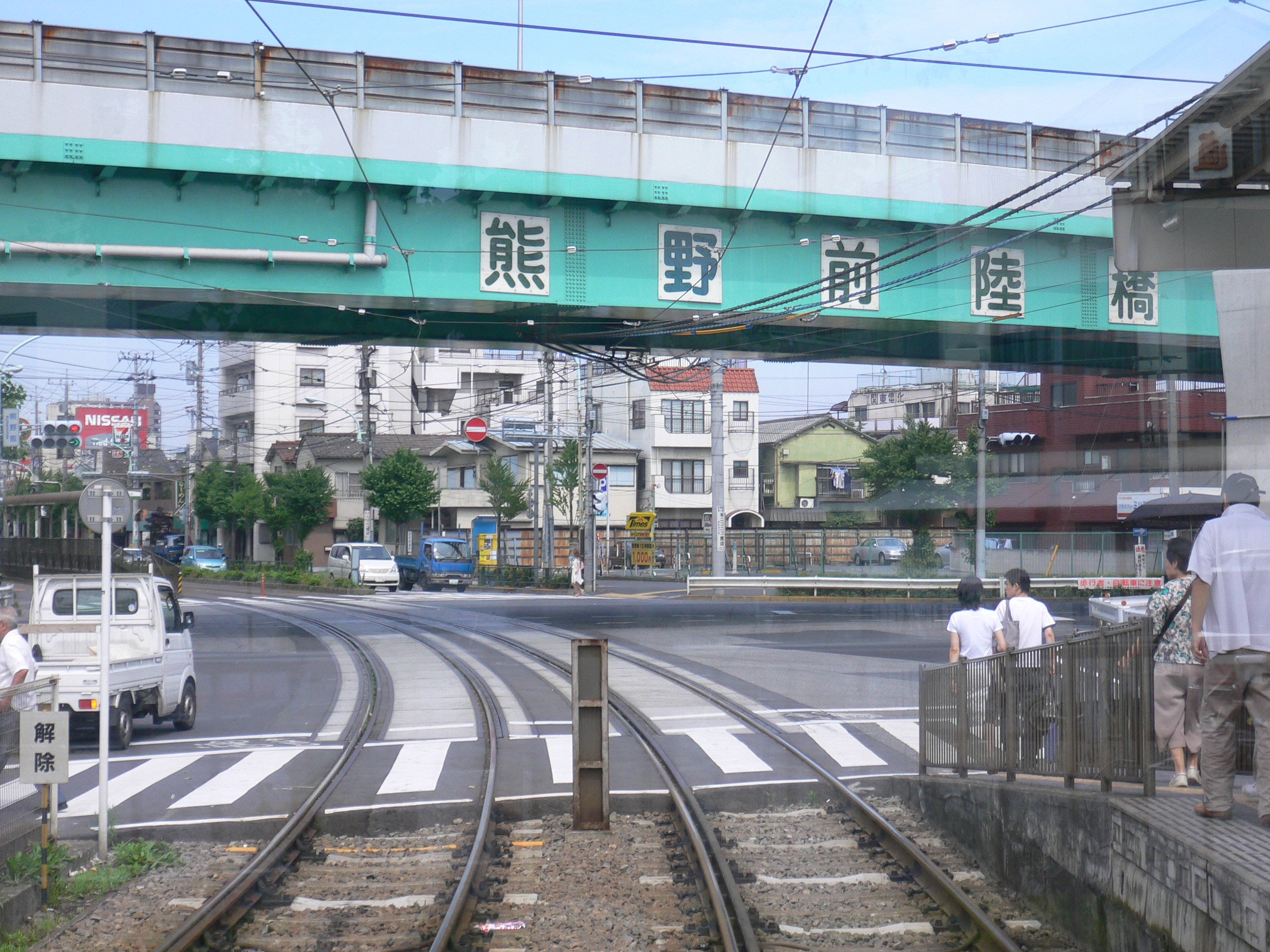 Kumanomae Station(熊野前駅) in Arakawa W, Tokyo M.